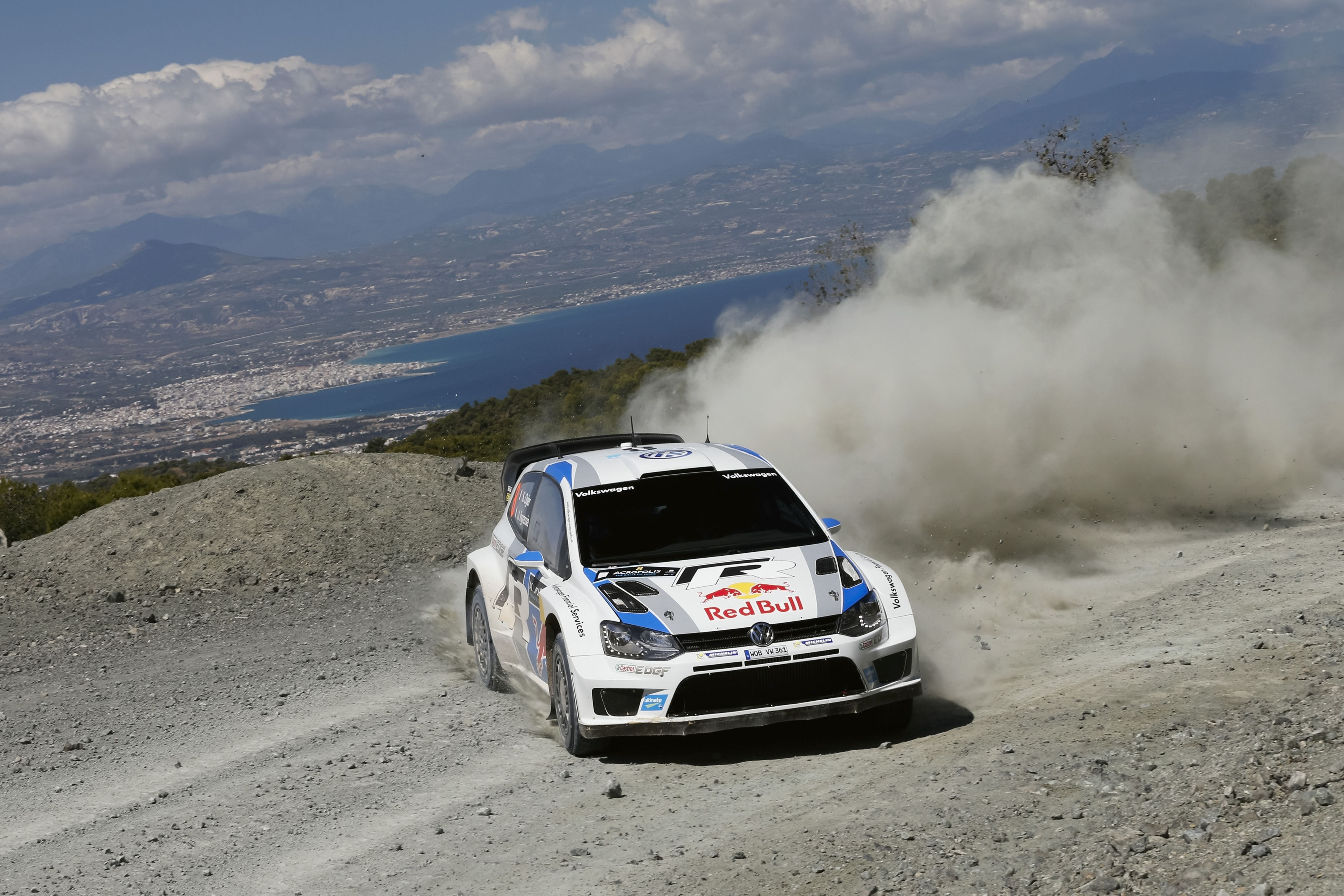 Sébastien Ogier and co-driver Julien Ingrassia in their VW Polo R WRC at the 2013 Acropolis Rally in Greece.